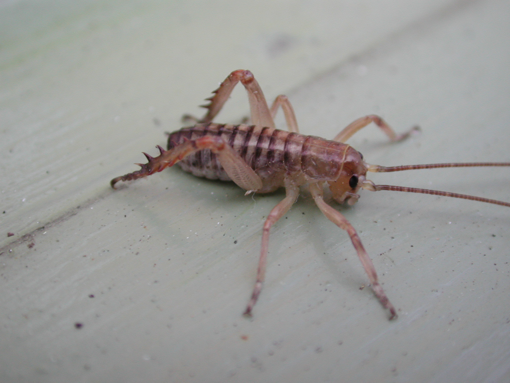 Young Wellington tree weta (Hemideina crassidens), body about 2cm long.